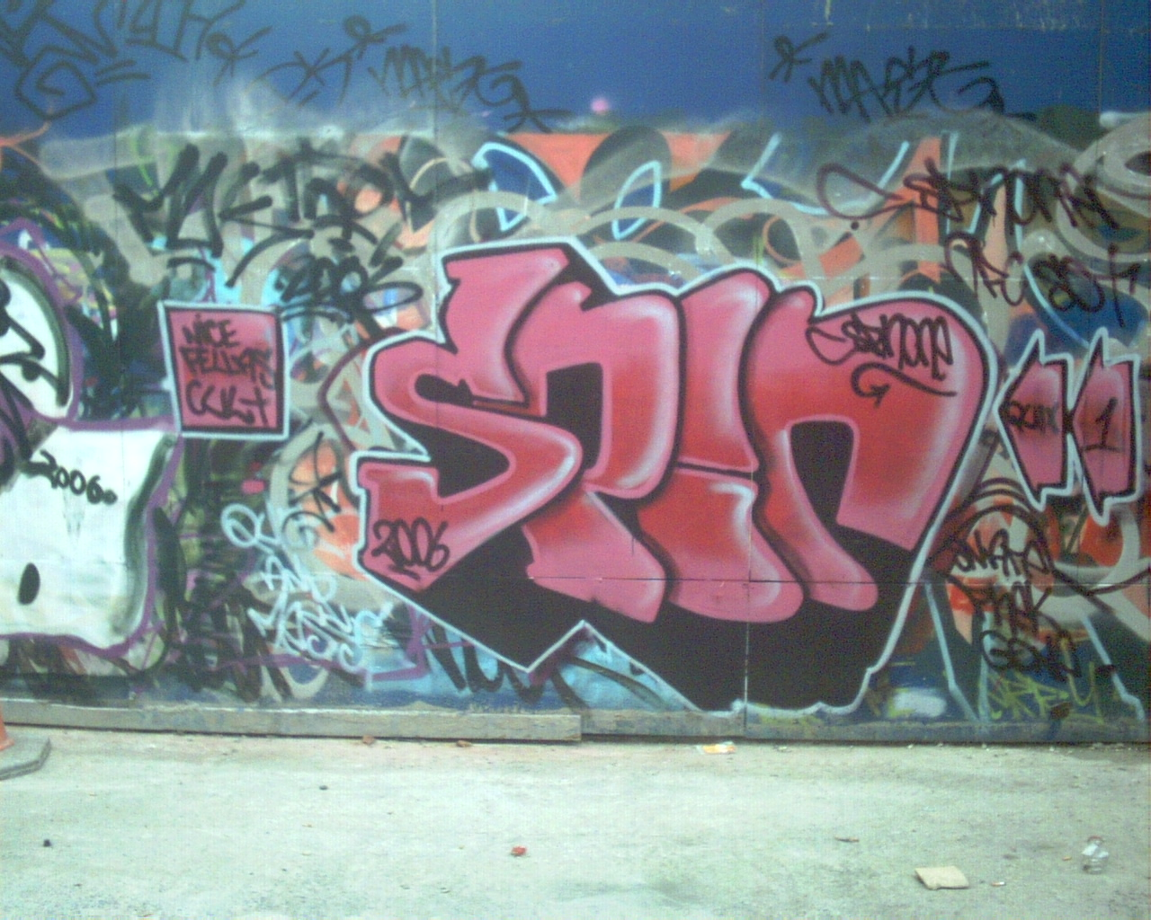 Graffiti from Spin